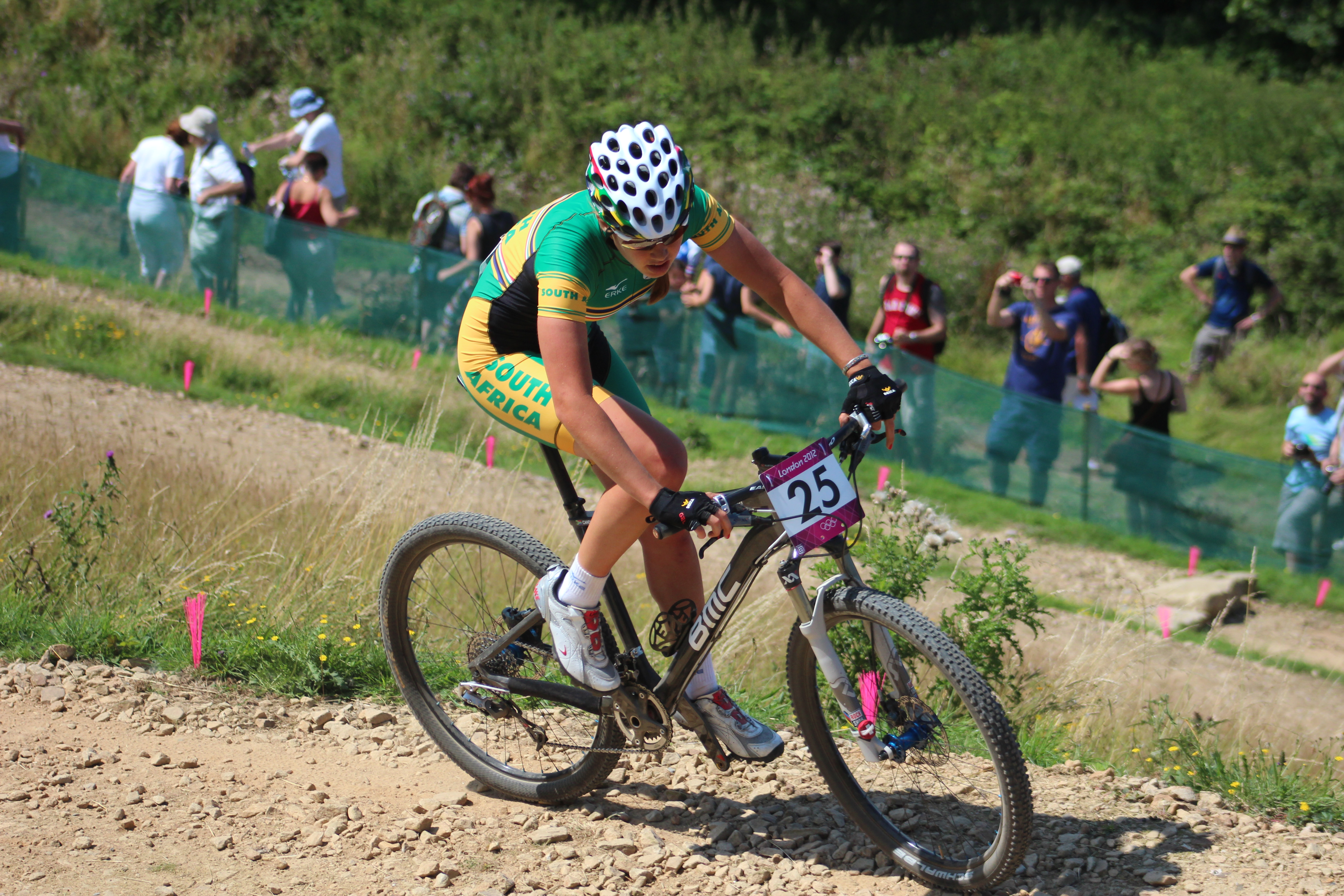 Cycling at the 2012 Summer Olympics – Women's cross-country. 11 August 2012. Hadleigh Farm. Candice Neethling (25) (RSA)